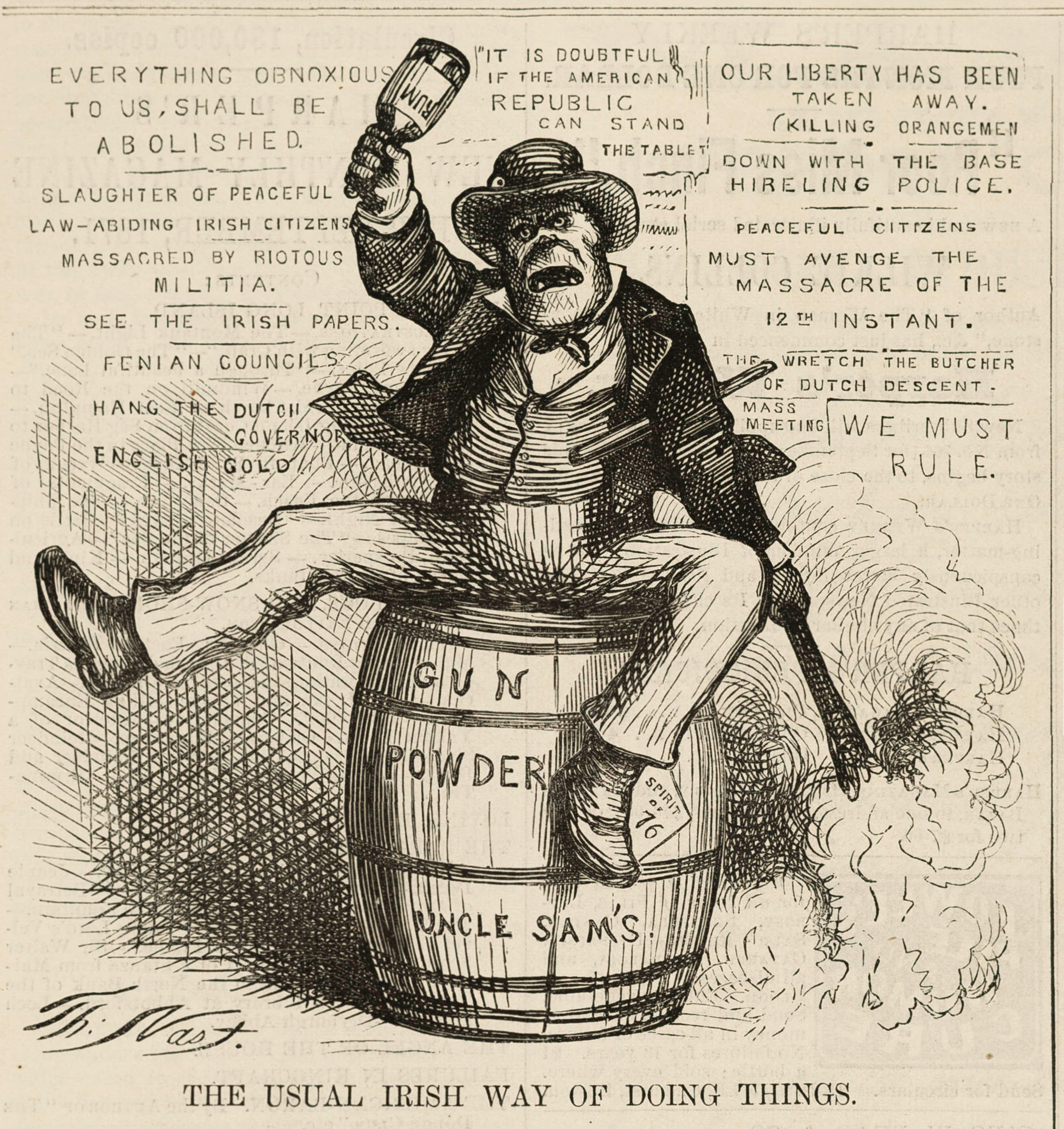 Anti-Irish political cartoon titled "The Usual Irish Way of Doing Things" by Thomas Nast (1840–1902), published in Harper's Weekly on 2 September 1871. Captions on walls: "Everything obnoxious to us shall be abolished, Our liberty has been taken away (killing Orangemen), We must rule." Caption on barrel: "Uncle Sam's Gun Powder."